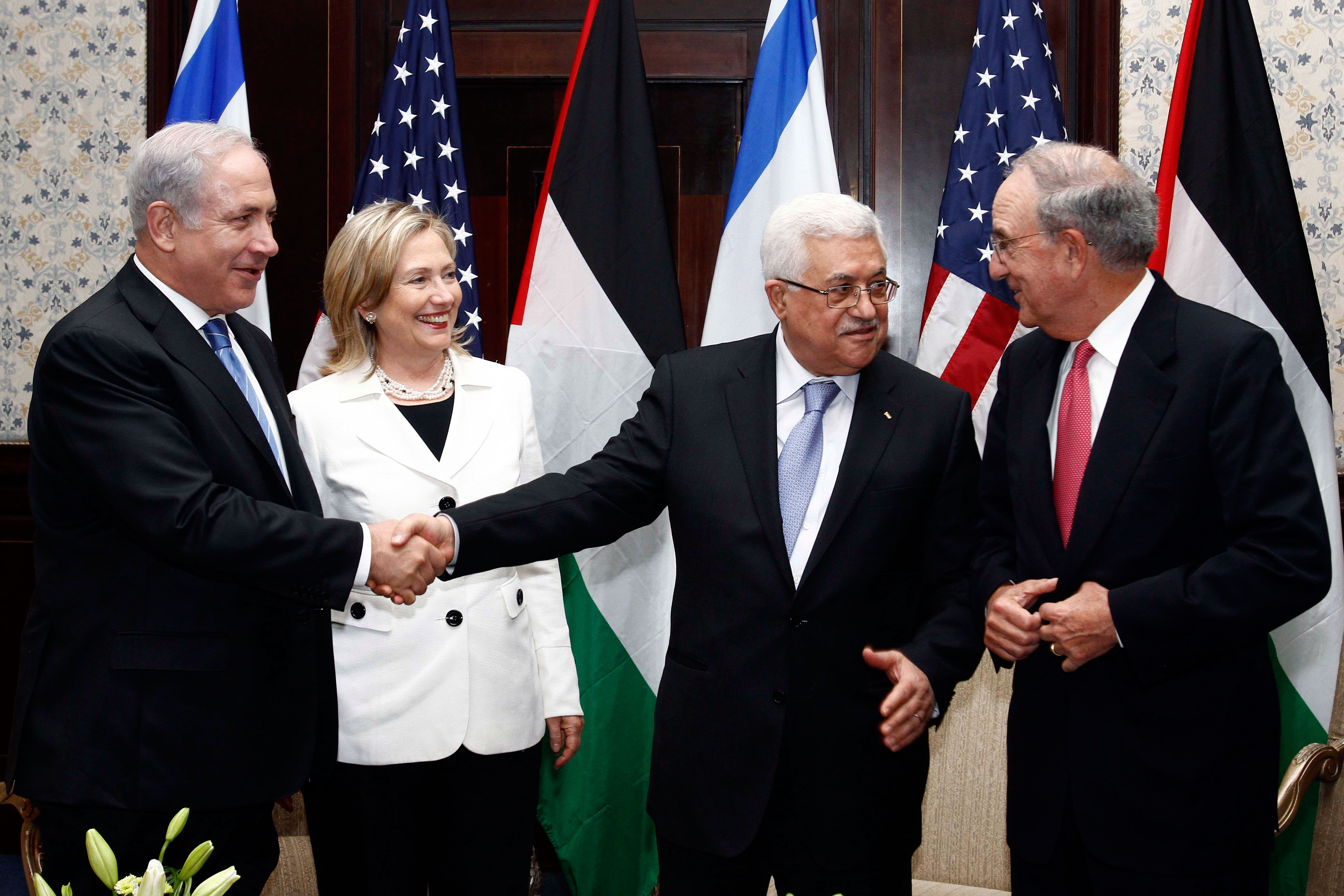 Israeli Prime Minister Benjamin Netanyahu (first from left), U.S. Secretary of State Hillary Rodham Clinton (second from left), Palestinian President Mahmoud Abbas (third from left), and U.S. Special Envoy for Middle East Peace George C. Mitchell (fourth from left) chat after their meeting in Sharm El Sheikh, Egypt, on September 14, 2010. [State Department photo/ Public Domain]